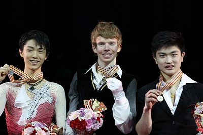 The men's podium at the 2013 Four Continents Championships. From left: Yuzuru Hanyu (2nd), Kevin Reynolds (1st), Yan Han (3rd).